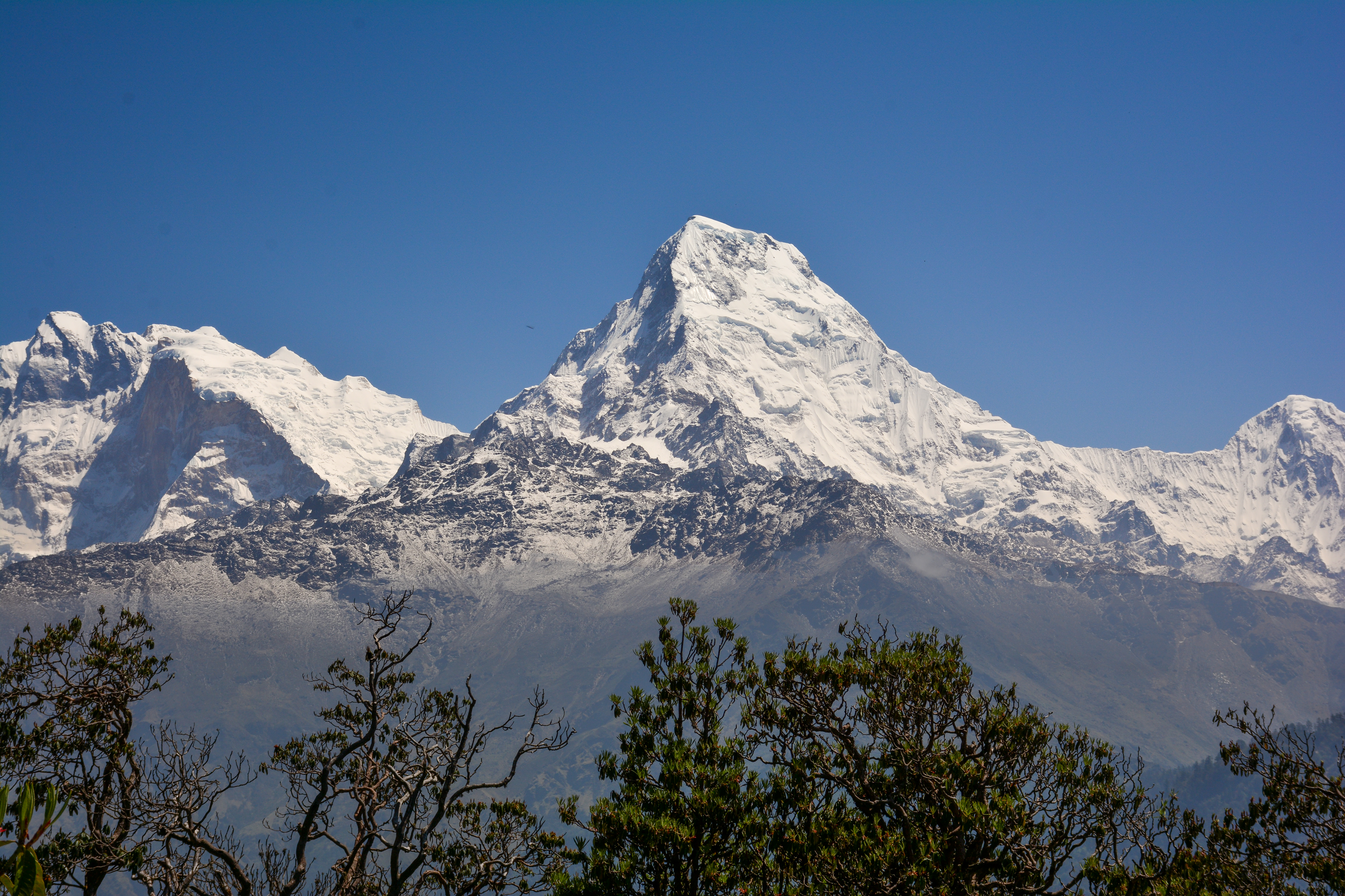 A view of Annapurna I from Poonhill